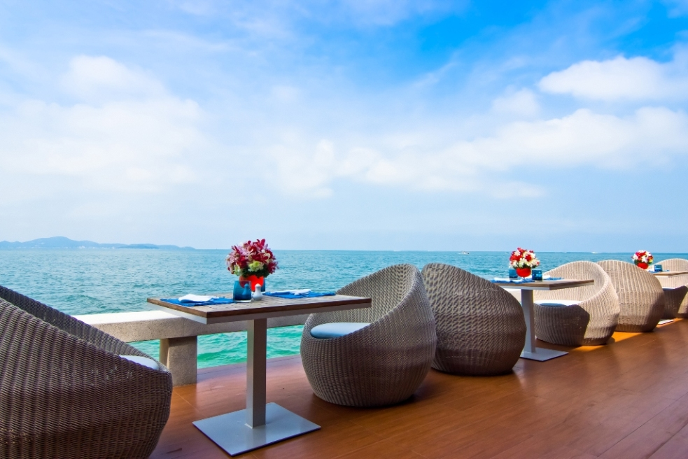 Breezeo beachside restaurant